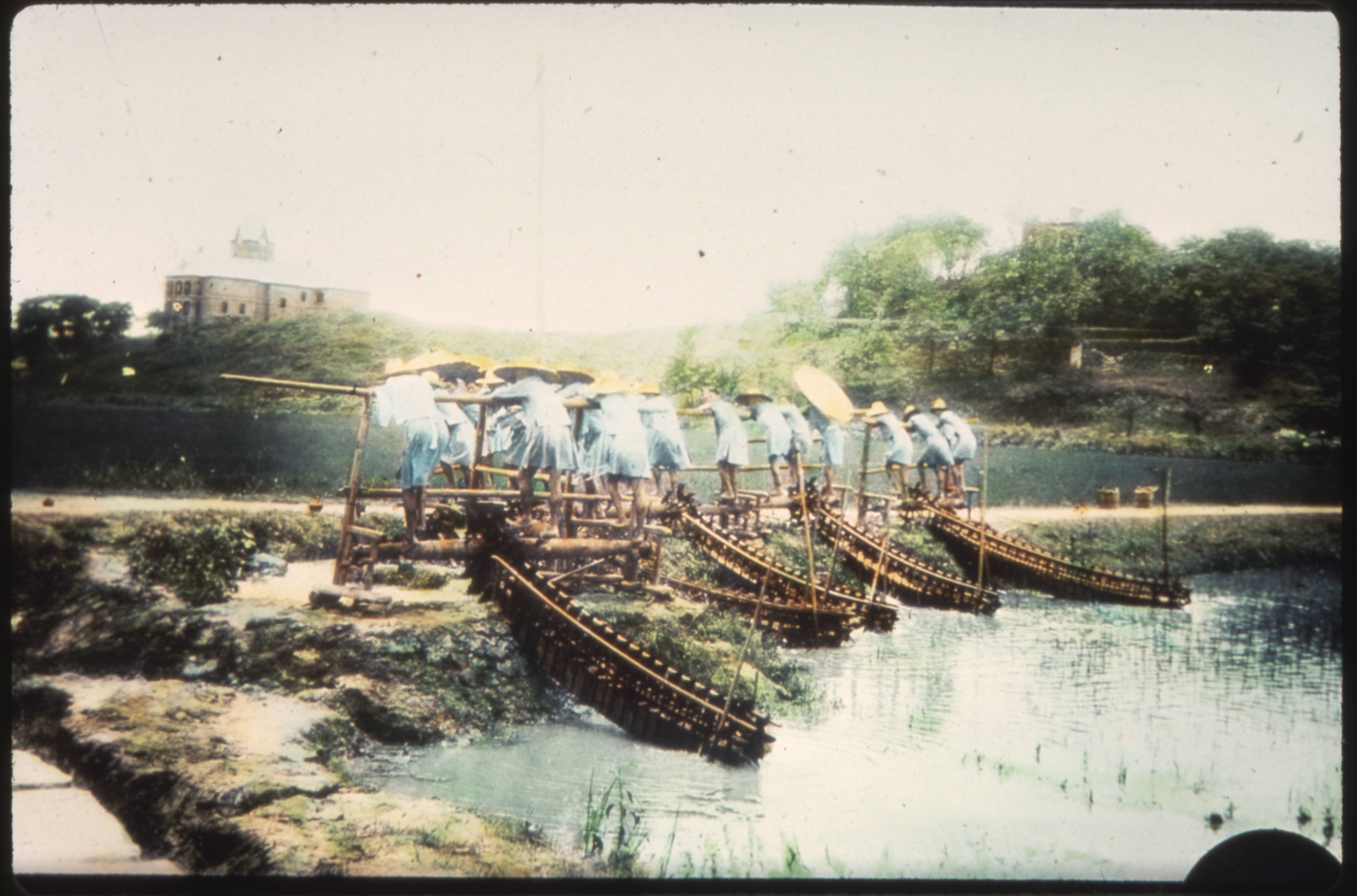 Reverse irrigation of rice fields, China, ca.1900-1919 "Reverse irrigation. Pedaled all day to get water from 1 field to another."; Captions for this set of lantern slides from the papers of Oliver and Jennie Logan, American Presbyterian missionaries in Hunan, were provided by their daughter Elsa. Subject (aat): general views Photographer: Unidentified Filename: IMP-YDS-RG008-358-0008-0084 Geographic subject: China Subject (unesco): Agriculture Part of collection: International Mission Photography Archive, ca.1860-ca.1960 Type: images Part of subcollection: Photographs from the Yale Divinity School Library, New Haven, Connecticut, ca.1880-1950 Part of repository: Yale Divinity Library Special Collections Repository name: Yale University. Divinity School. Day Missions Library Format: lantern slides Archival file: impa_Volume290/IMP-YDS-RG008-358-0008-0084.tiff Repository address: Yale University Divinity School Library, 409 Prospect Street, New Haven, CT 06511 Part of series: Oliver and Jennie Logan Papers Repository Date created: 1900/1919 Publisher (of the digital version): University of Southern California. Libraries Format (aat): photographs Legacy record ID: impa-m66707 Access conditions: Coverage date: 1900/1919